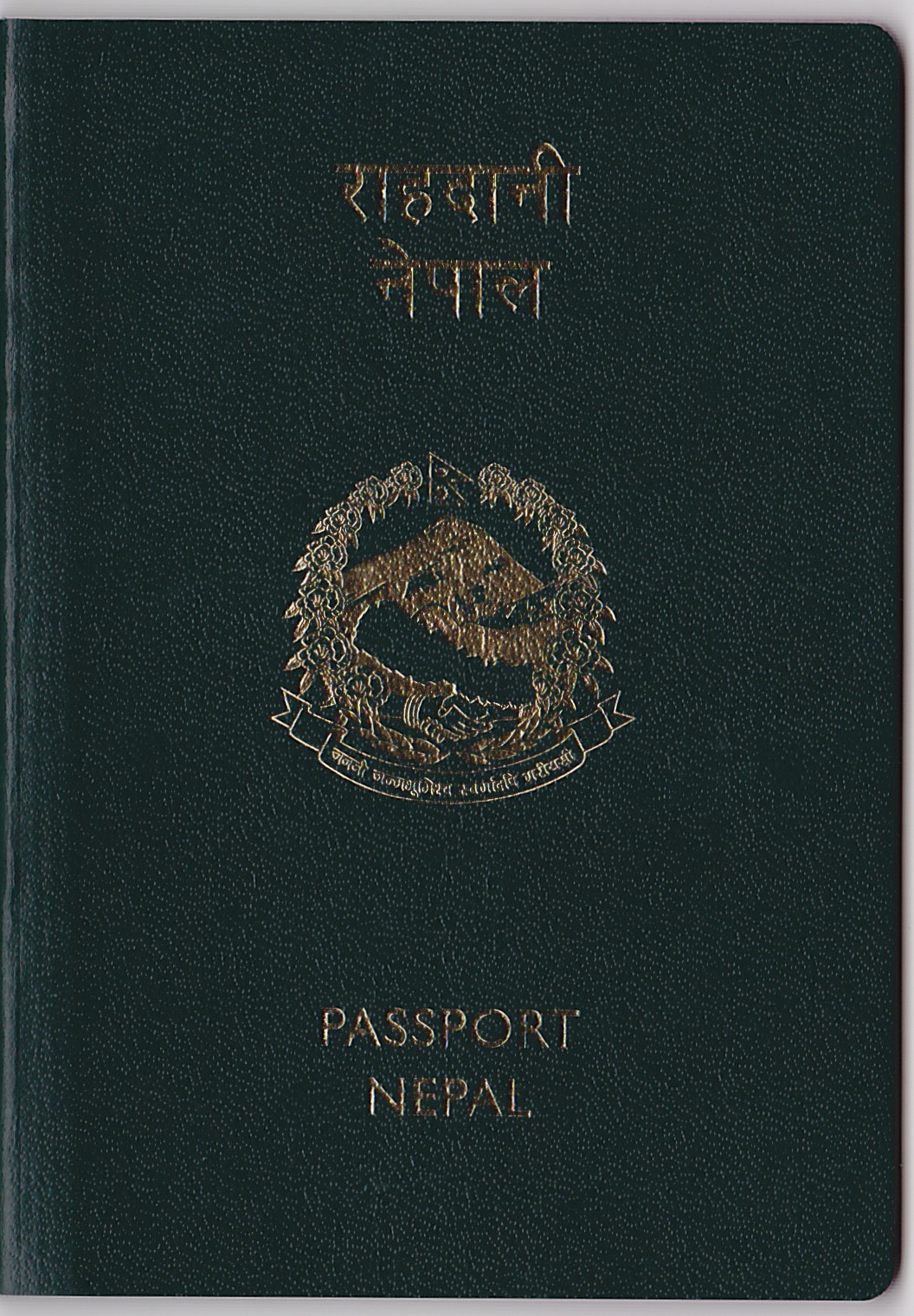 Cover of Nepalese MRP